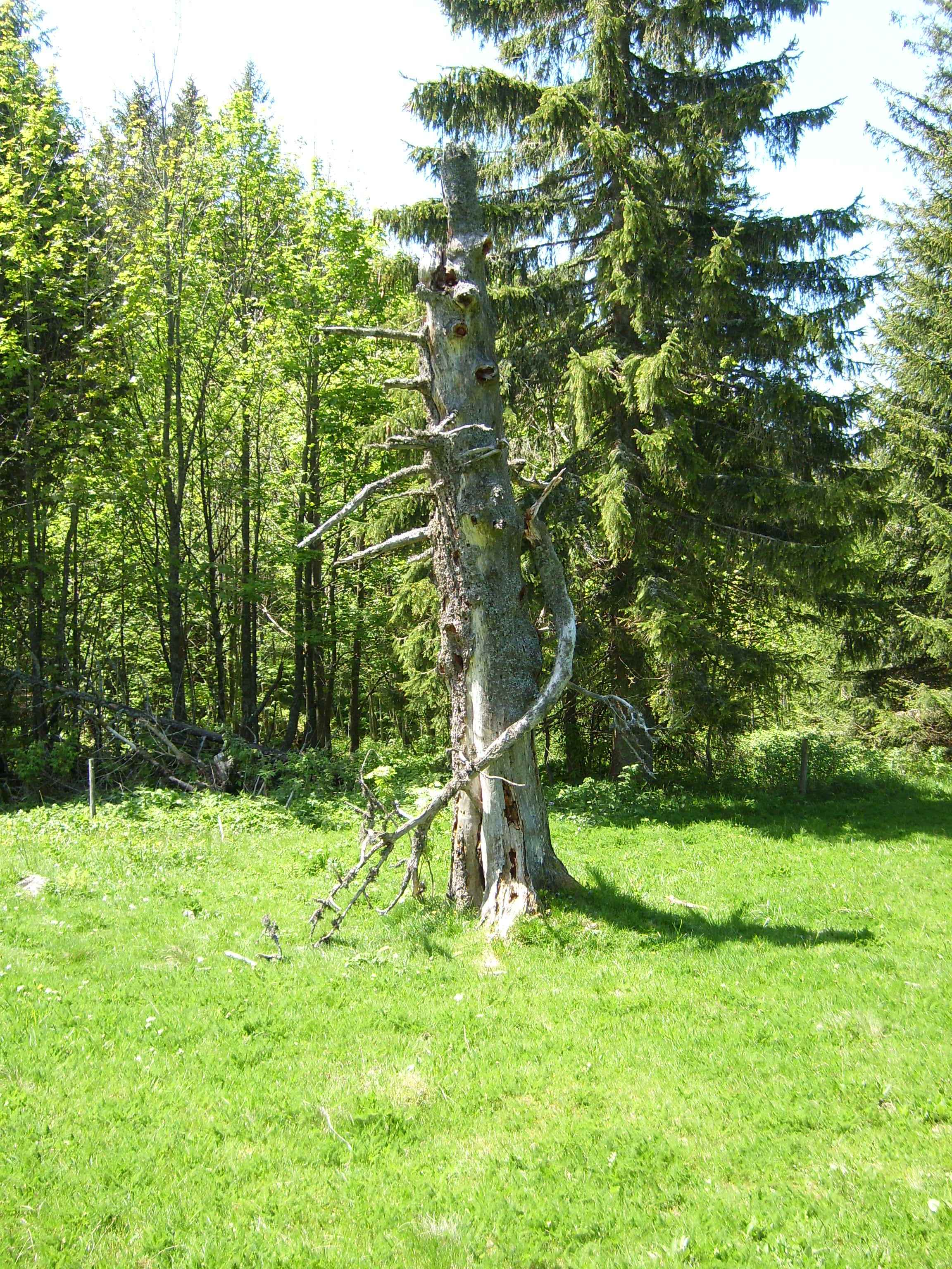 Coarse woody debris